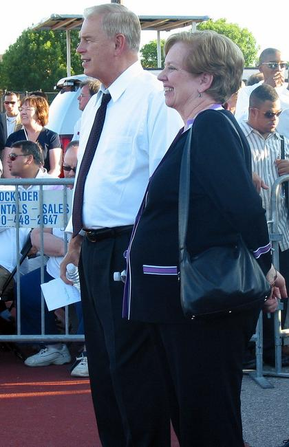 Ted Strickland and Mary Jo Kilroy at Barack Obama-Joe Biden rally in Dublin, OH